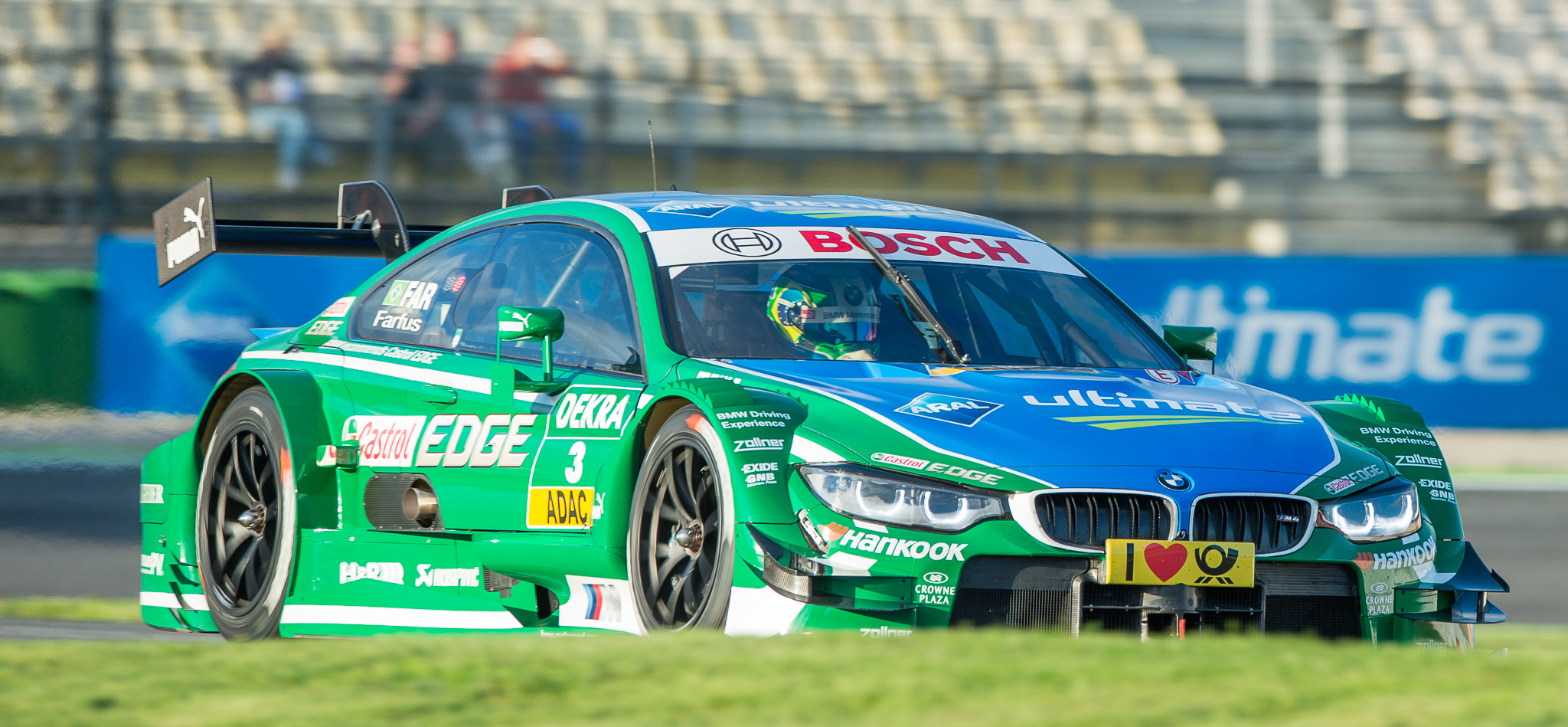 Augusto Farfus,Castrol EDGE BMW M4 DTM,DTM,Deutsche Tourenwagen Masters,Hockenheimring,Motorsport,RBM,Racing Bart Mampaey